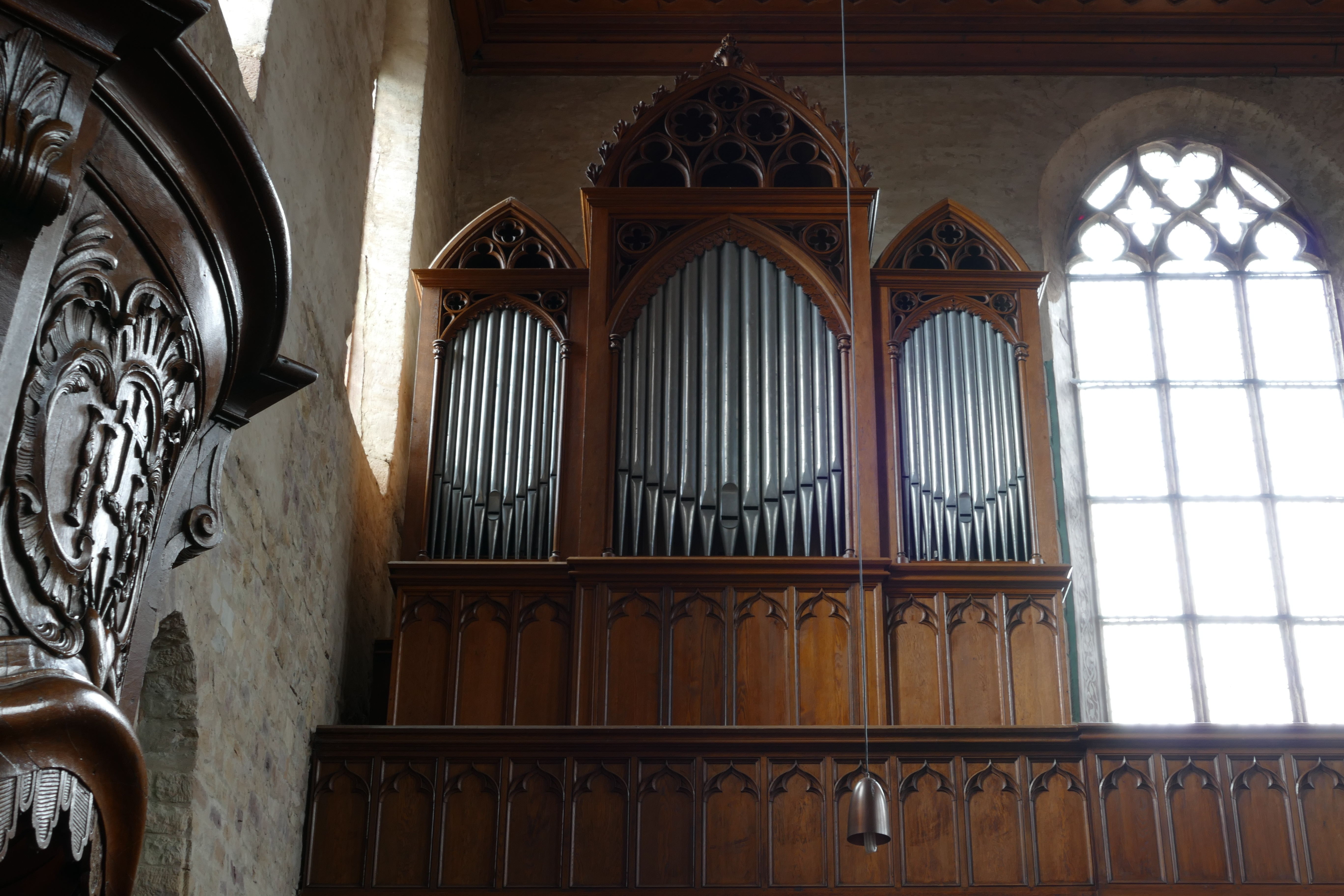 Alsace, Bas-Rhin, Walbourg, Église abbatiale Sainte-Walburge (PA00085208, IA67008491). Orgue Wetzel (1832): This object is inscrit Monument Historique in the base Palissy, database of the French furniture patrimony of the French ministry of culture, under the references PM67001146, IM67012594 and buffet PM67001147 buffet.